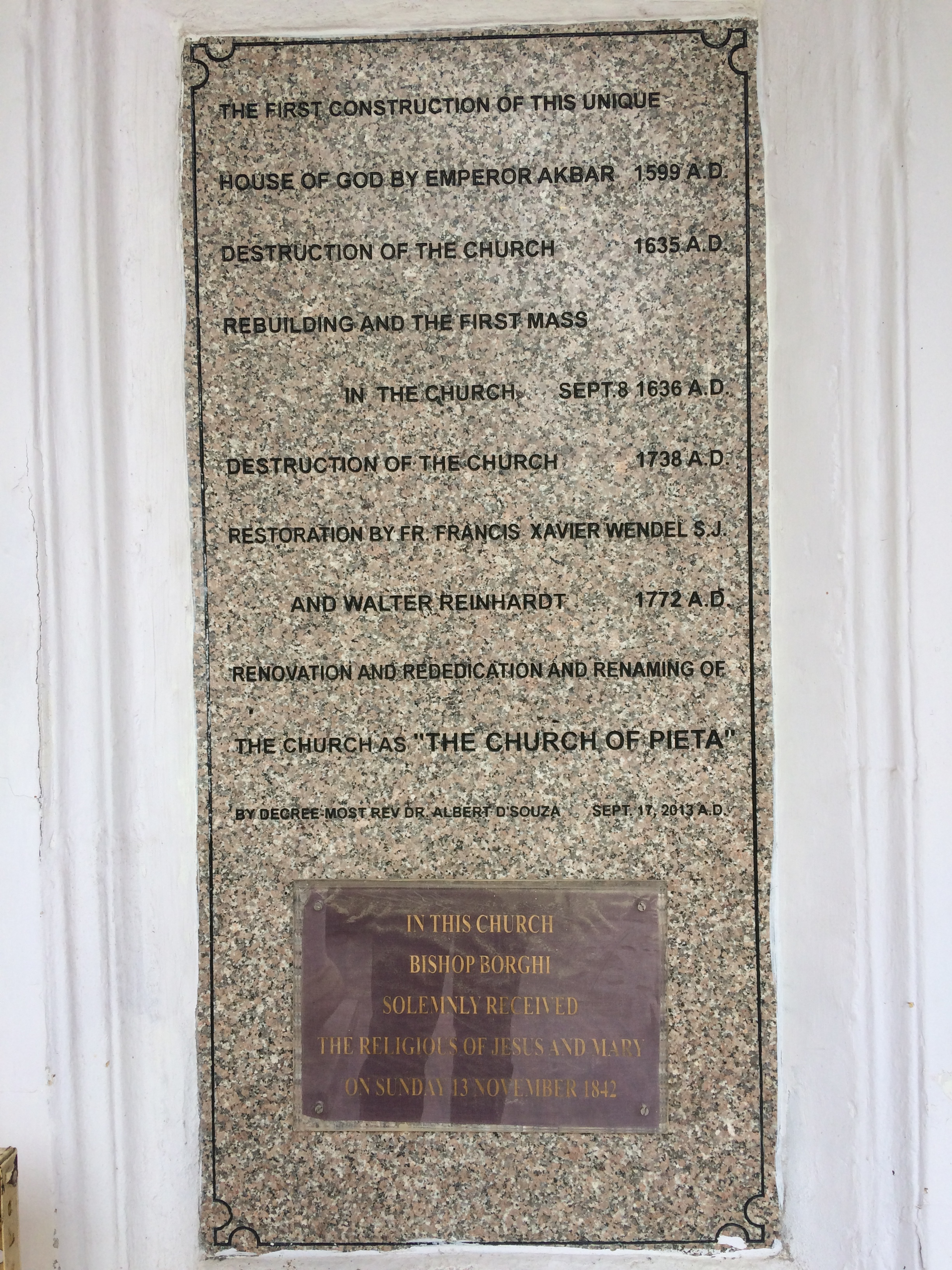 This stone tablet provides details of the construction of the Church and the main events that the church went through with time